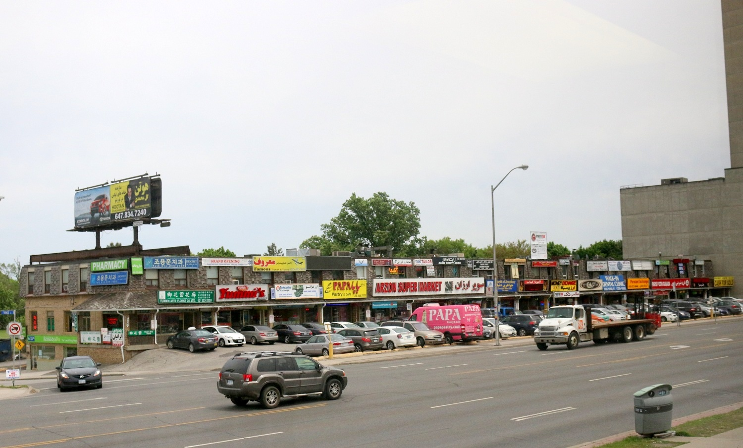 In Toronto, Persian community is quite big. Many Persian (Iranian) shops, restaurants, institutes, etc are located in Toronto's Yonge Street (North York section). Photo: Persian Dutch Network, June 2014